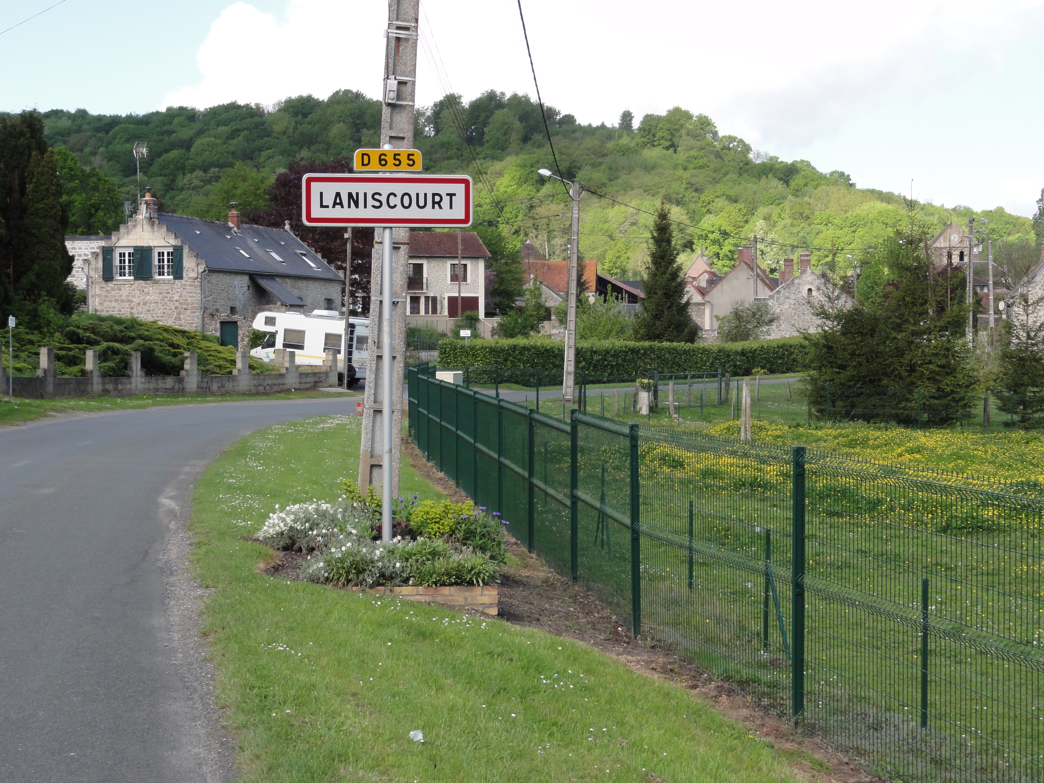 Laniscourt (Aisne) city limit sign